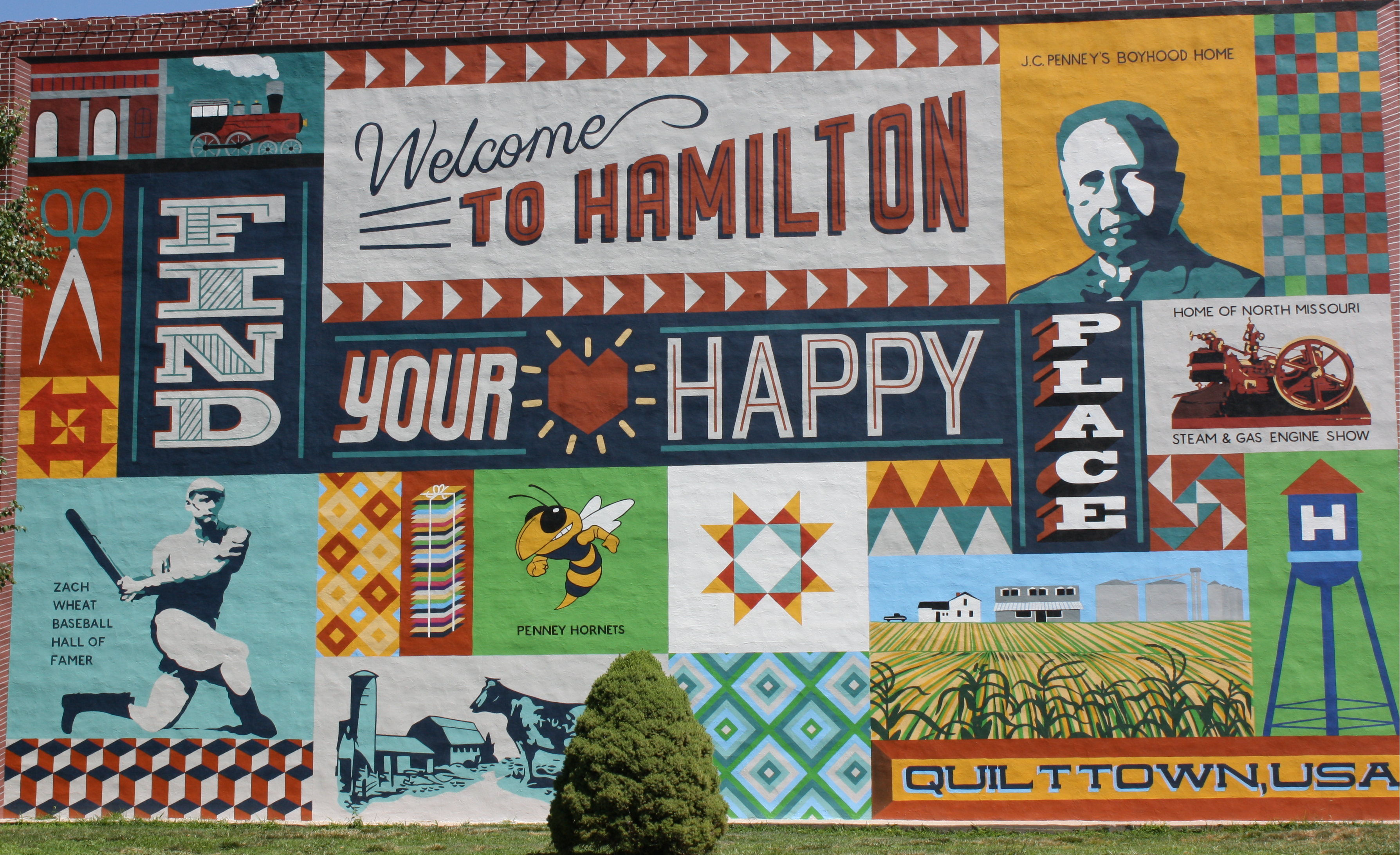 Hamilton, MO mural 2017